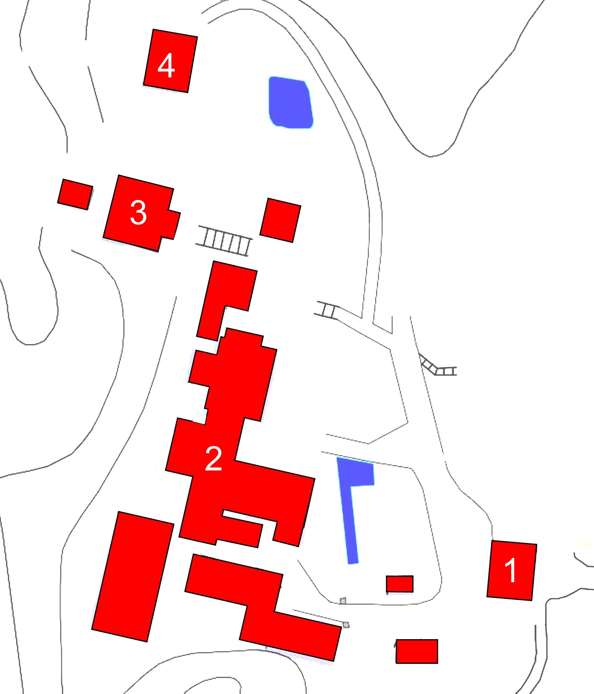 Layout of Gokuraku-ji (Naruto)